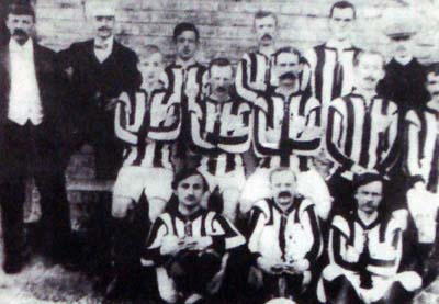 The Romanian football champions Colentina Bucharest at the end of the 1913-1914 seson